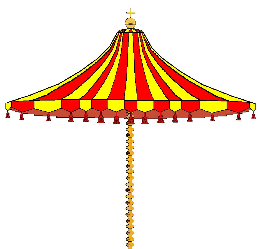 My own drawing of a Papal umbrellino. Robert Prummel Groningen Maart 2007